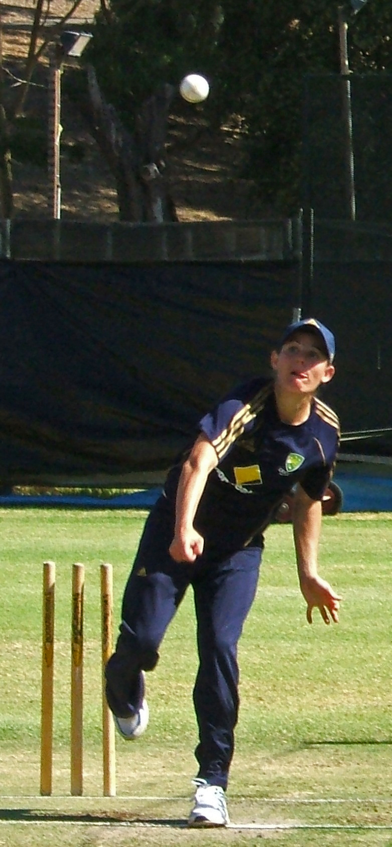 Named person engaging in named action at Adelaide Oval nets/training ground